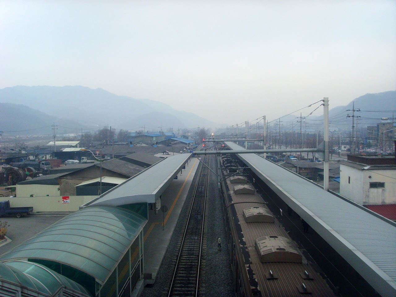 Soyosan Station (Gyeongwon Line), (Sangbongam-dong, Dongducheon-si, Gyeonggi-do, South Korea)